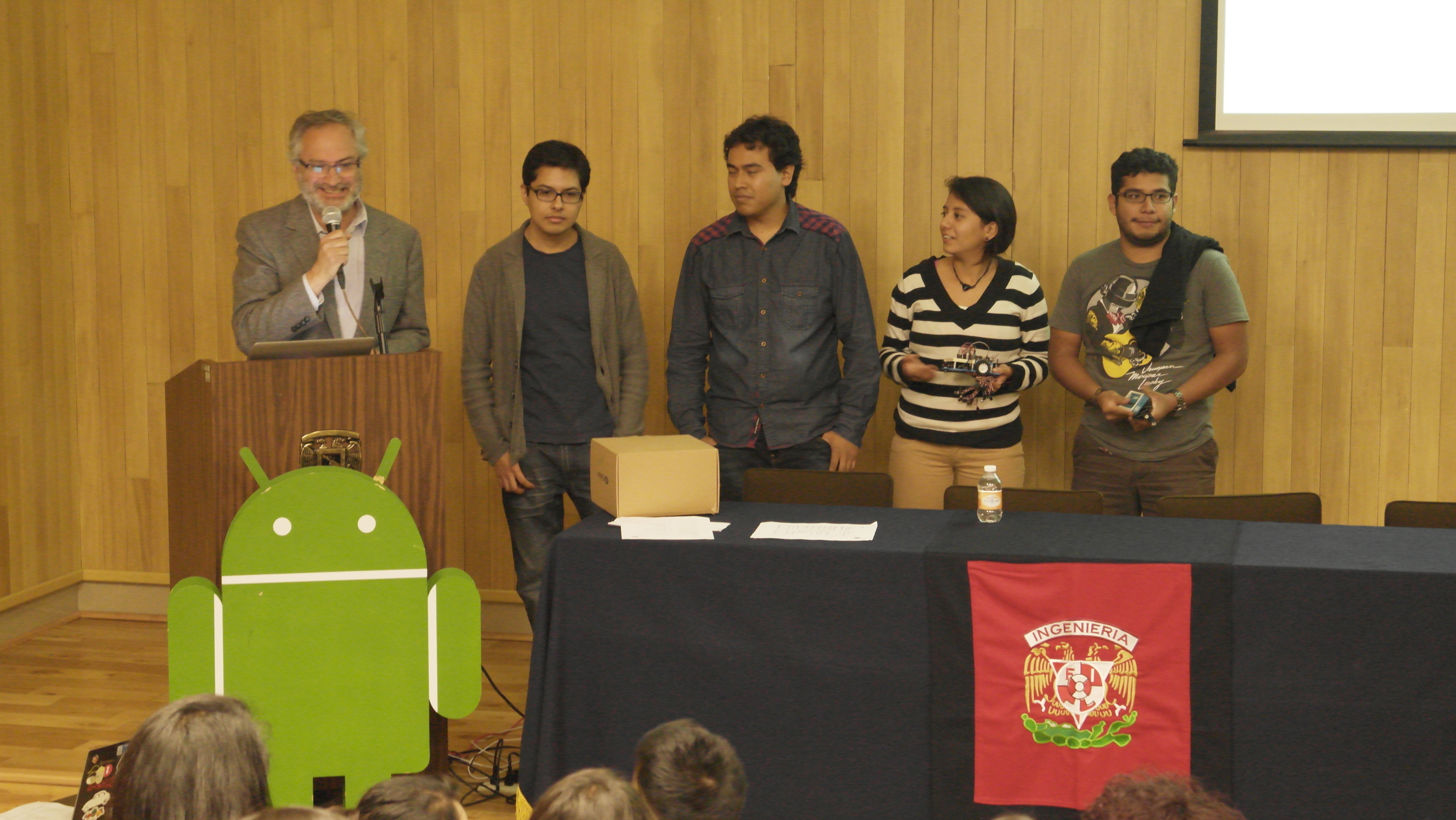 Male professors at UNAM helping to organize events to include more women in technology.